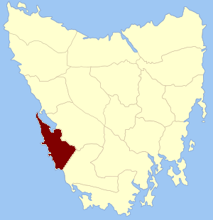 Location of the land district (formerly county) within Tasmania.